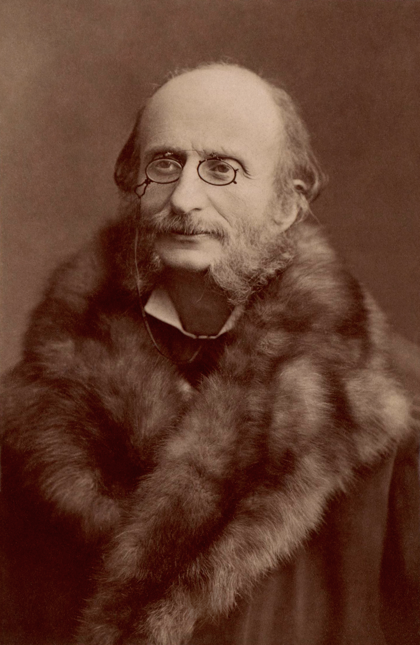 Jacques Offenbach by Nadar